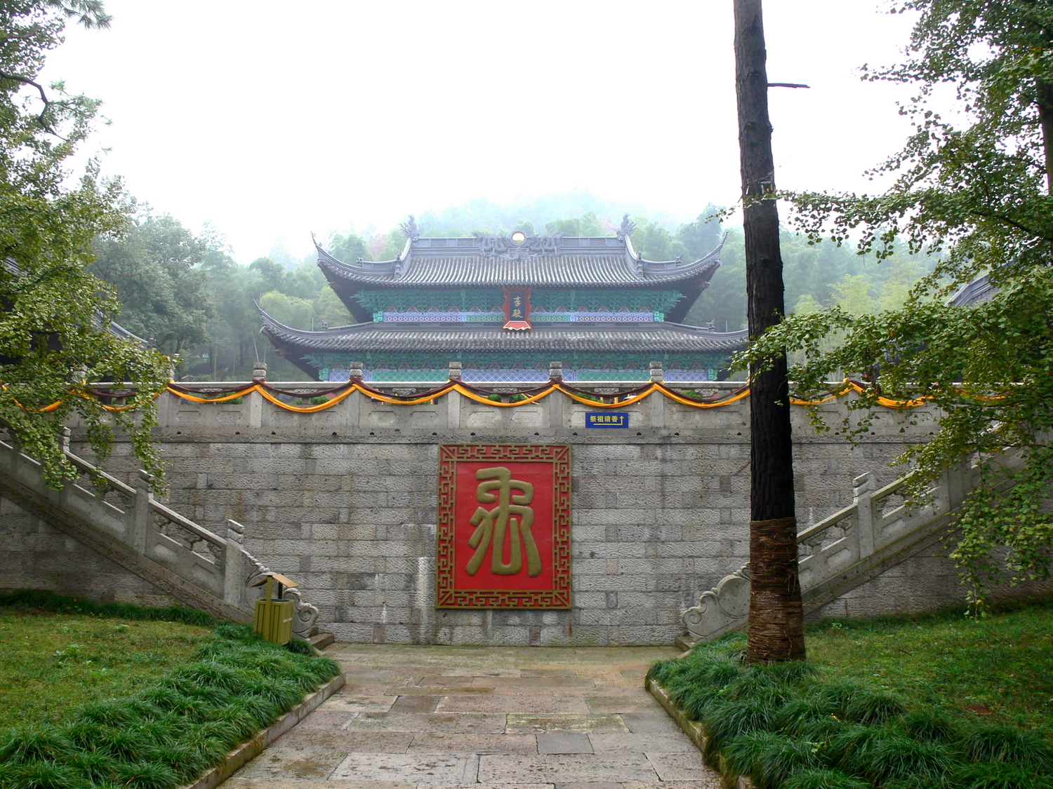 Yu Temple in Yu Mausoleum of Shaoxing, Zhejiang